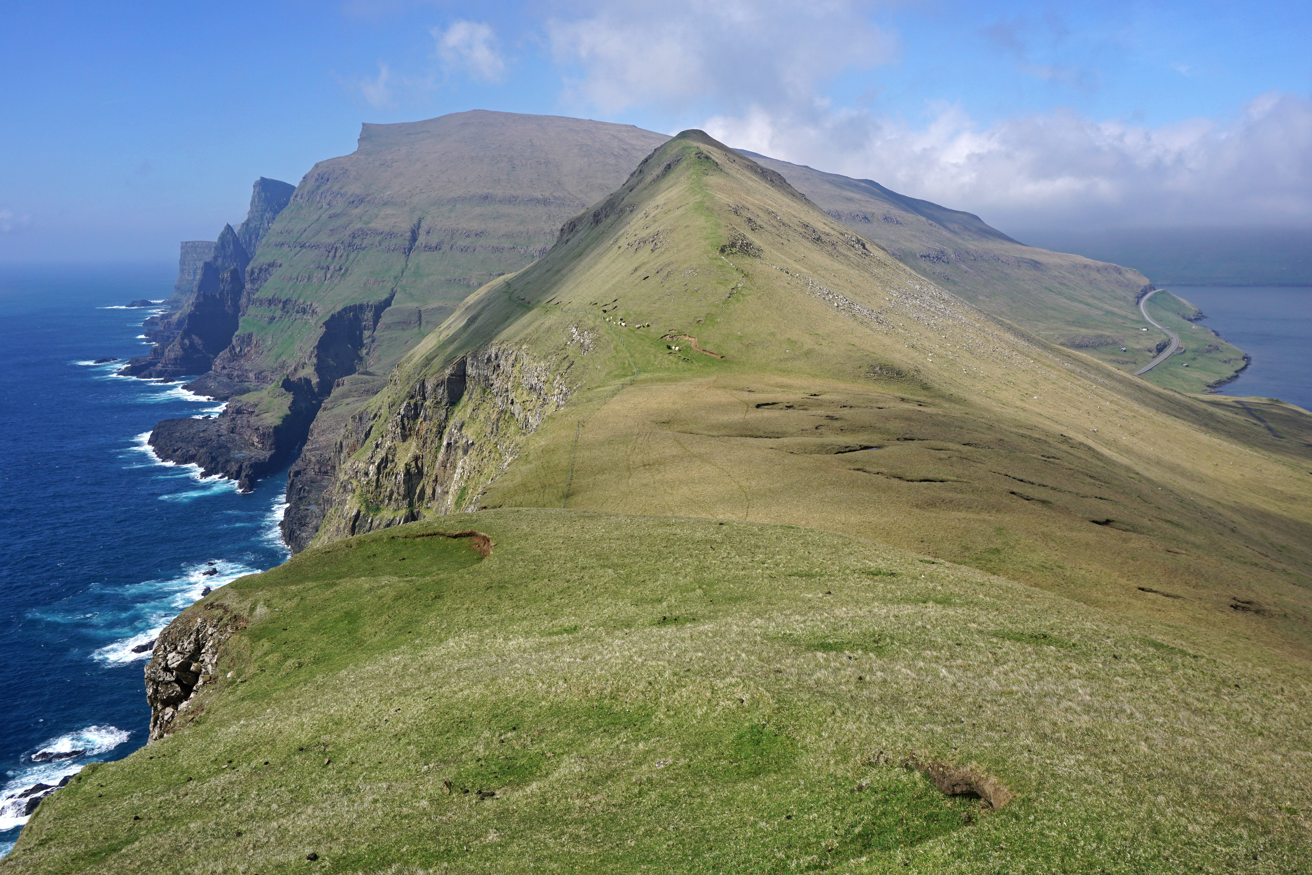 View towards Kirvi, near the village Lopra, Faroe Islands. The top of the mountain is called Kirviskollur.